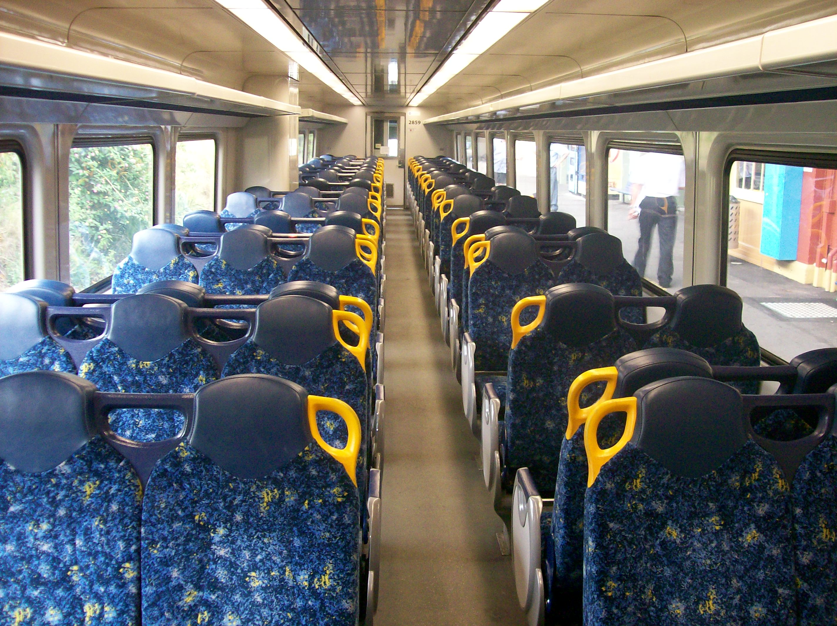 Endeavour railcar